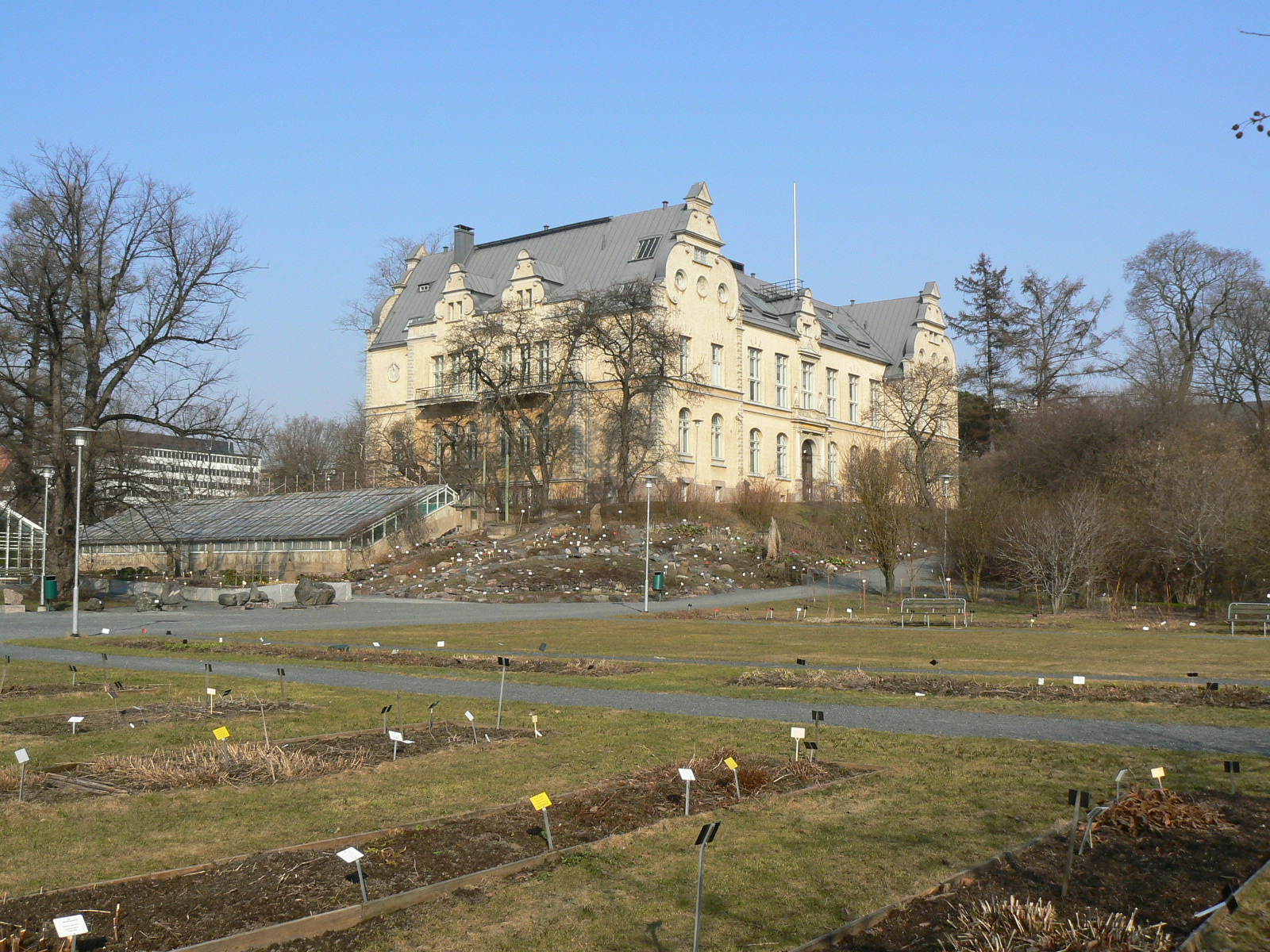 Botanical Museum in Helsinki, Finland